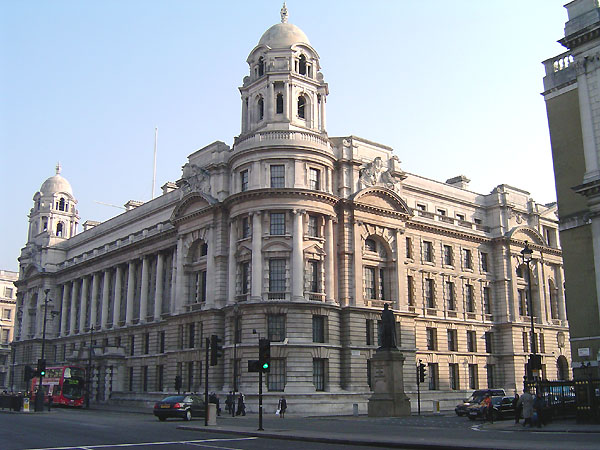 Old War Office Building, Whitehall, London Image by ChrisO